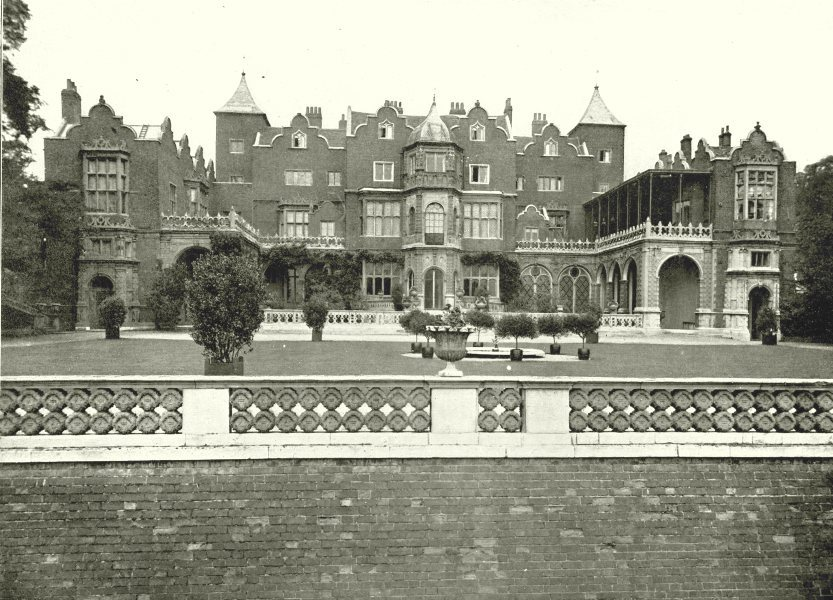 The south front of Holland House in 1896.